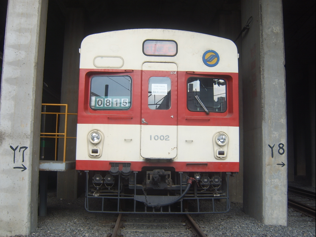 Seoul metro class 1000